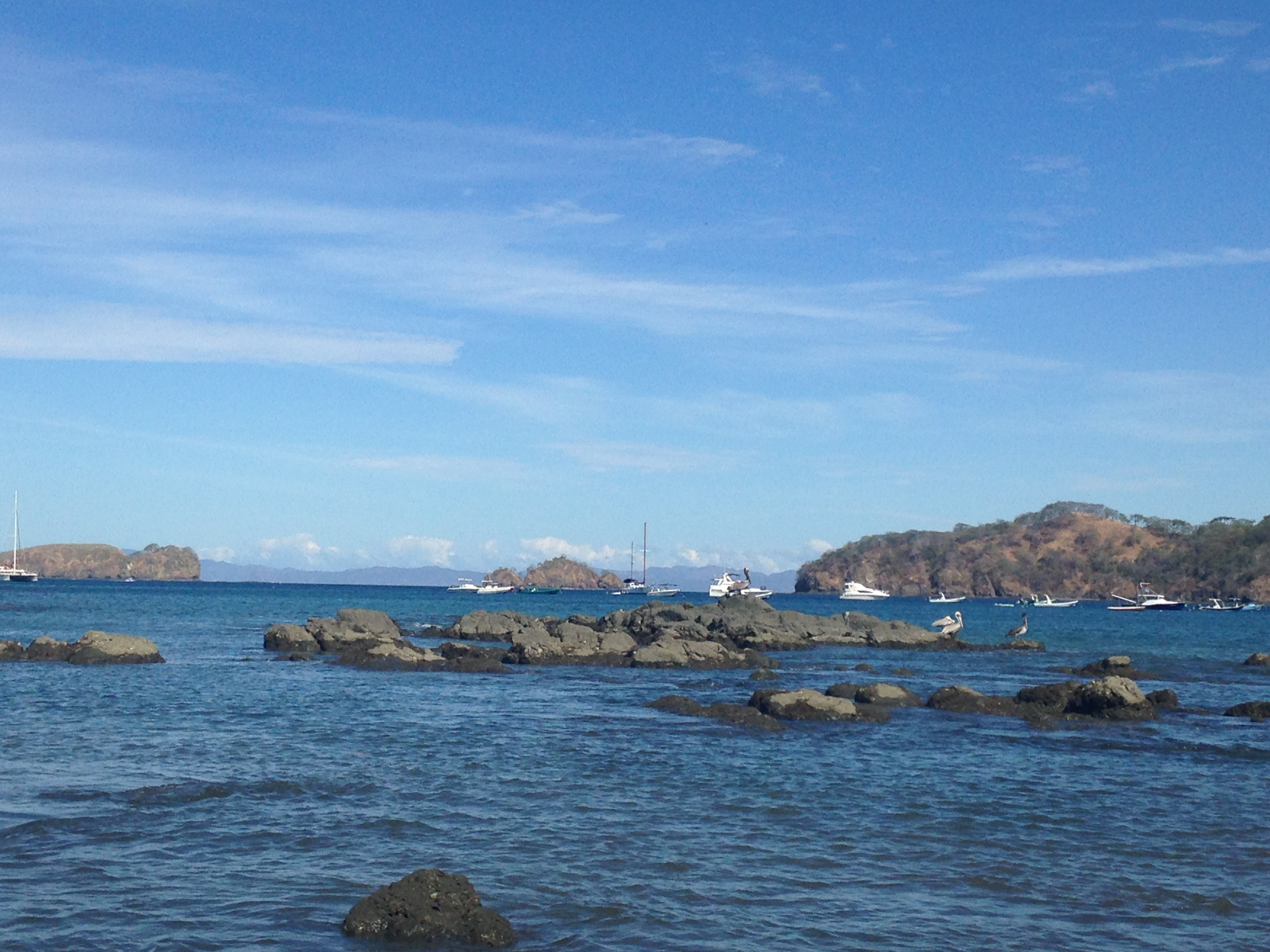 Play Hermosa in the morning